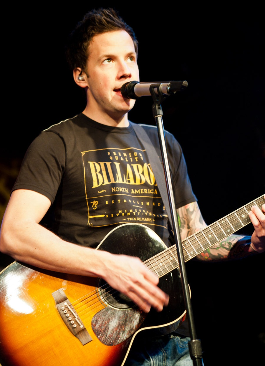 Pierre Bouvier of Simple Plan during the band's Beijing show on January 06, 2012